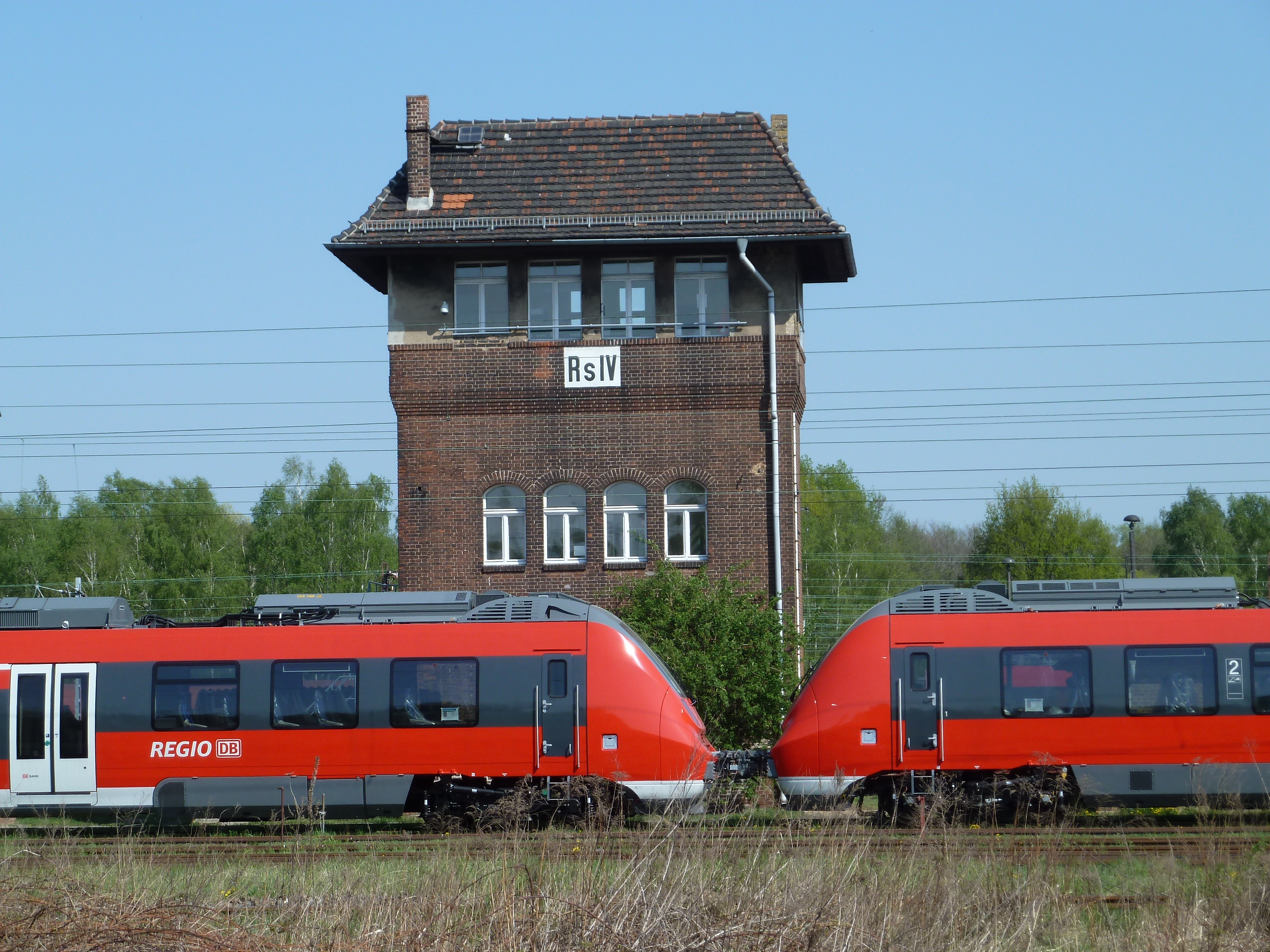 Railway yard Wustermark Rangierbahnhof, switch tower, with "Talent 2" (Bombardier) trains